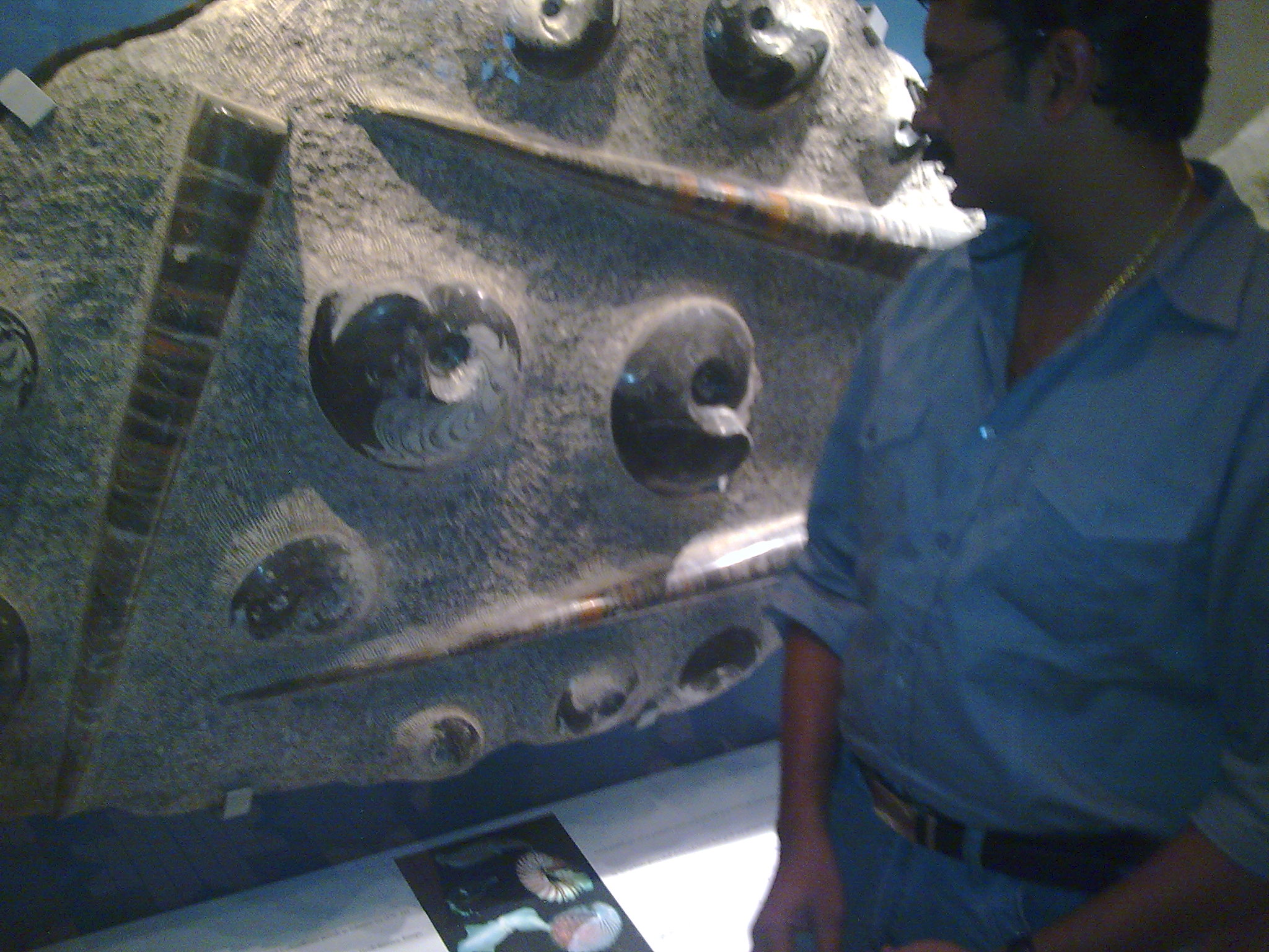 Irvin Calicut with Ocean fossil tablet in scientific center kuwait.